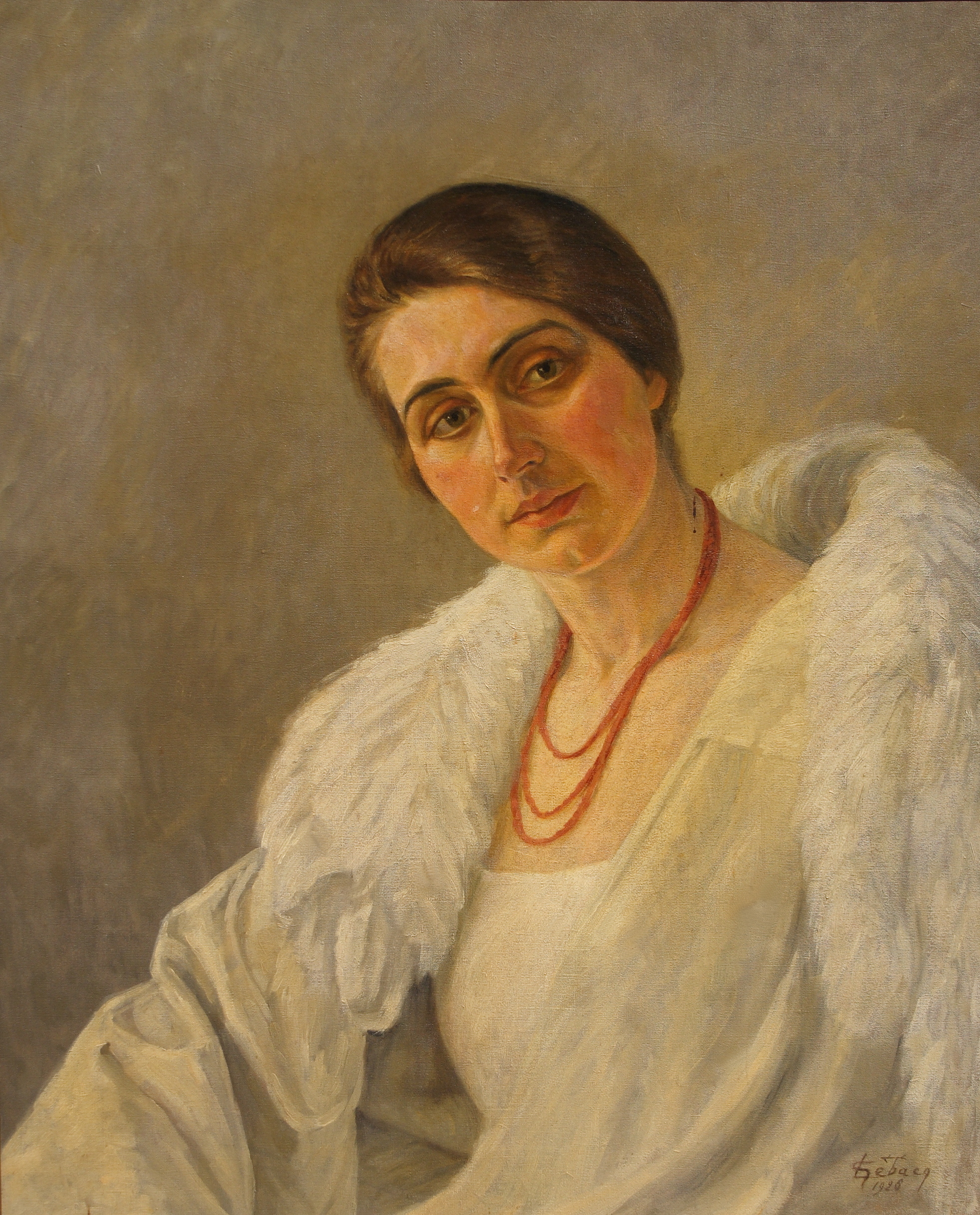 Portrait of Miss H. Lebacq